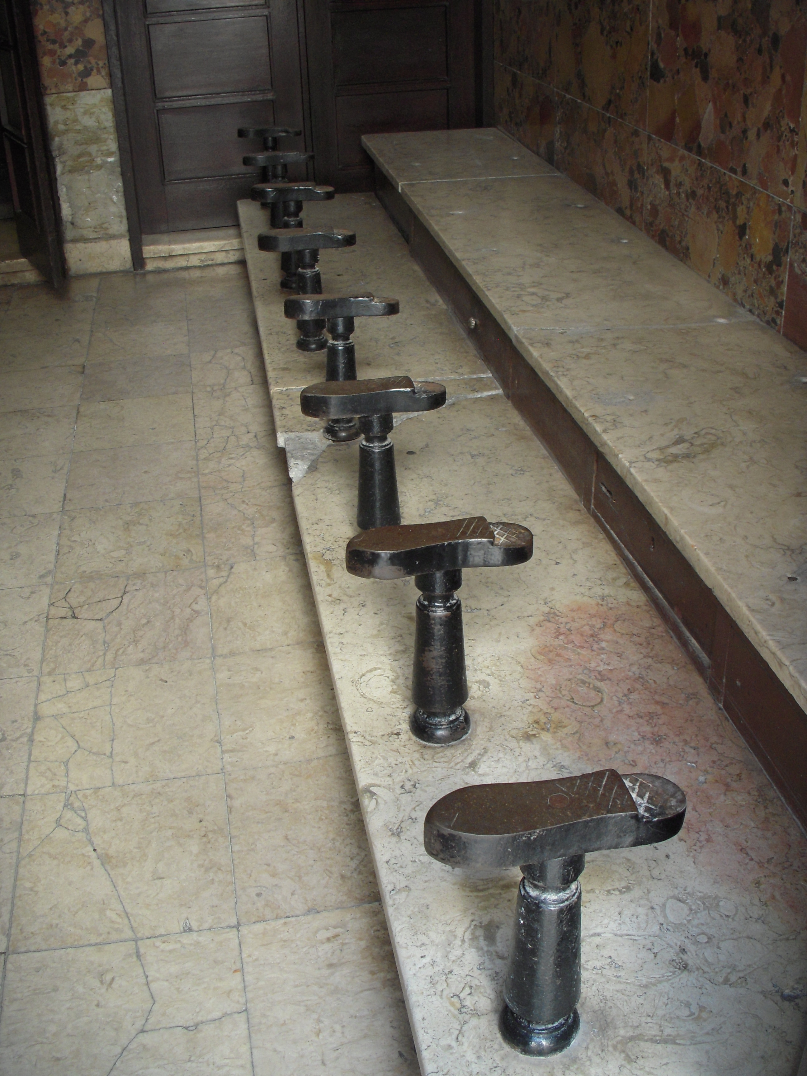 Shoeshiner stand in Lisbon, Portugal. April 2013